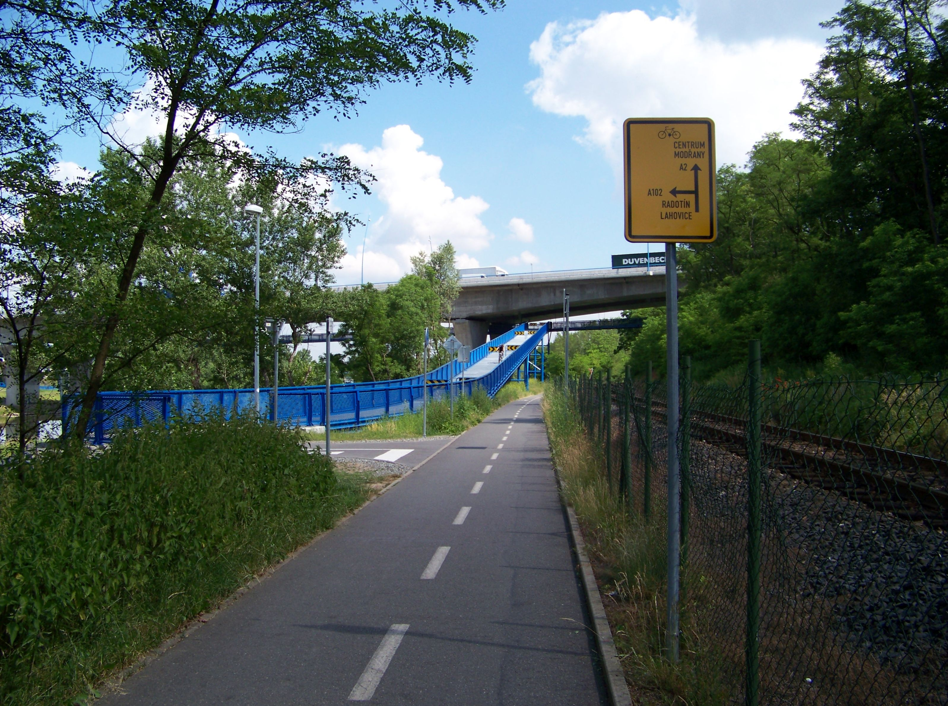 Prague-Komořany, Czech Republic. A path along the railway line, Radotínský most with a footbridge.